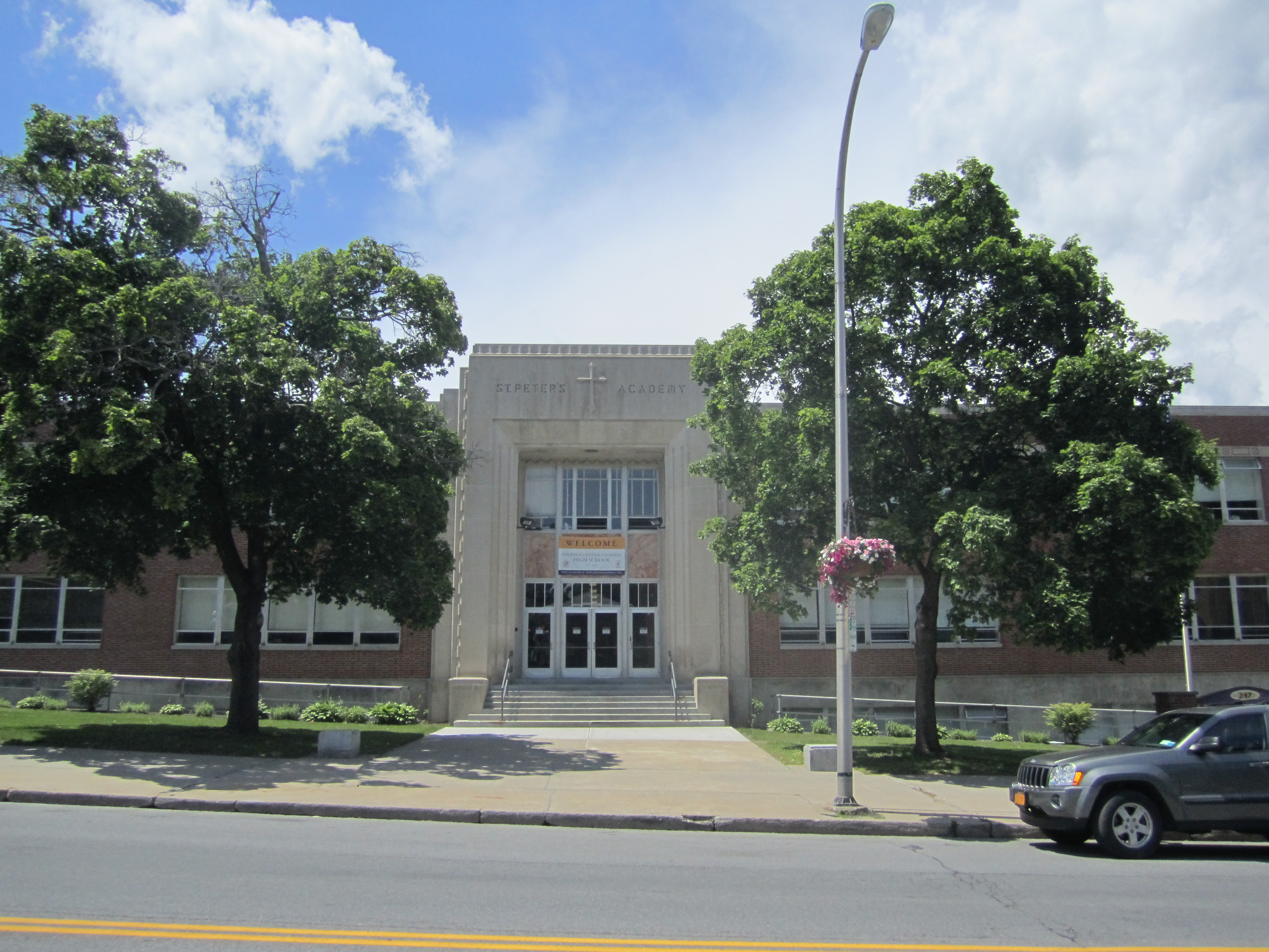 Saratoga Central Catholic High School (SCC), Broadway, Saratoga Springs NY